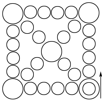 board of the Yut game